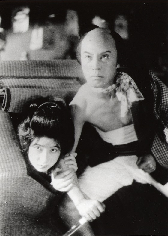 Nobuko Fushimi and Denjirō Ōkōchi in Oatsurae Jirokichi kōshi (御誂治郎吉格子) directed by Daisuke Itō - 1931